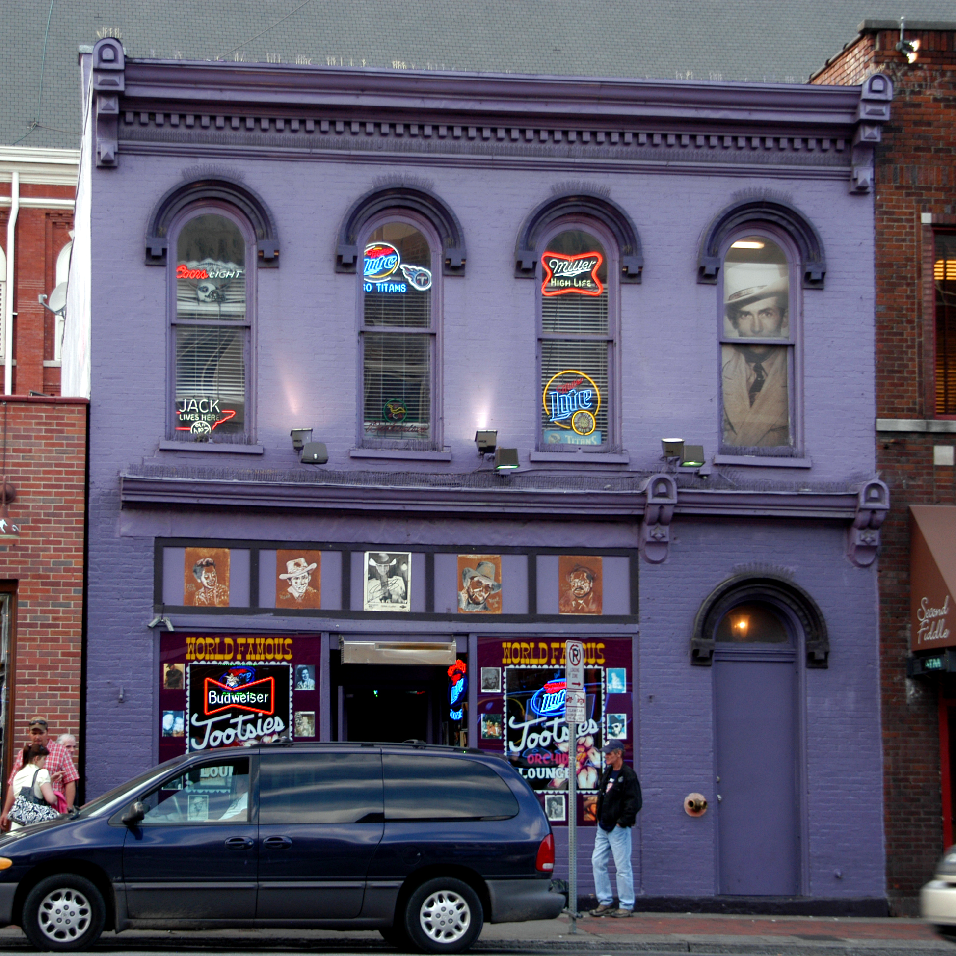 Tootsie's Orchid Lounge - Nashville's most historically important honky-tonk was a favored watering hole for Tom T. Hall, Kris Kristofferson, Willie Nelson, Roger Miller and other legends who spilled from the Ryman's back door to greet the wee hours at Tootsie's. These days, the room is filled mostly by tourists, college kids and cowboys. It's still a blast to look around, though, even if that glut of tourists and college kids makes moving around nearly impossible night to night. The south side and roof of the Ryman Auditorum are visible behind Tootsie's.